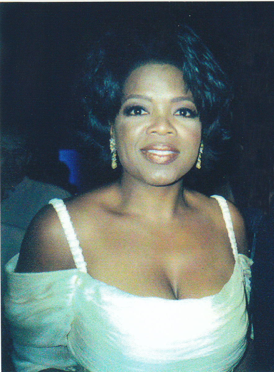 Taken at the Governor's Ball following the 2002 Emmy Awards NOTE: Permission granted to copy, publish, broadcast or post any of my photos, but please credit "photo by Alan Light" if you can. Thanks.